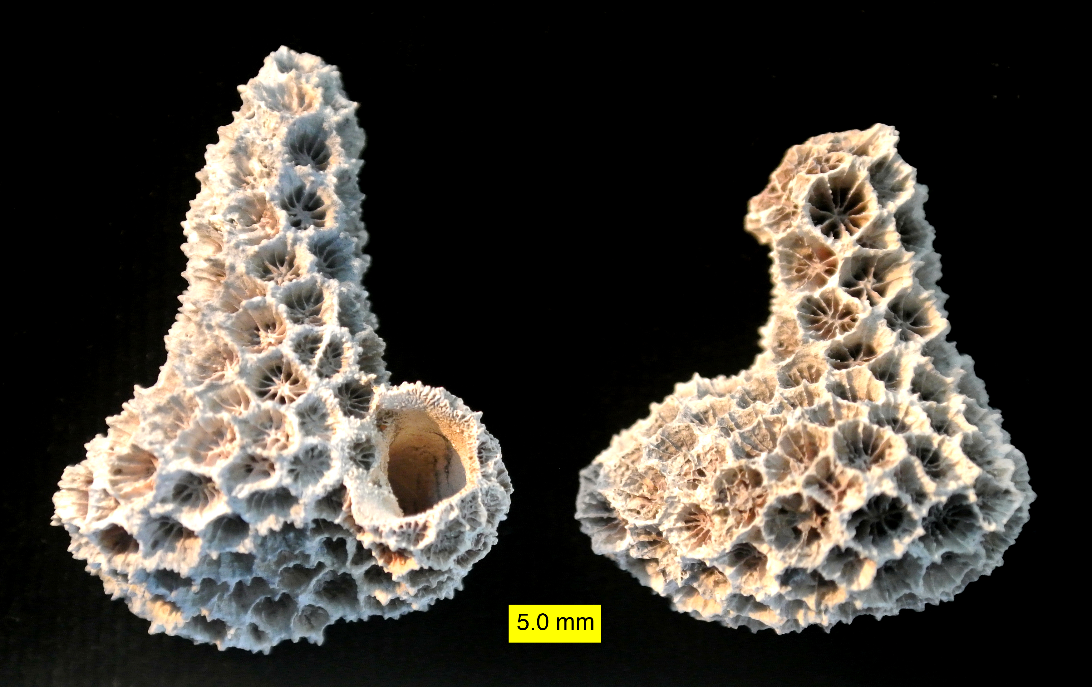 Septastrea marylandica, a scleractinian coral encrusting pagurized gastropod shells (Pliocene of Florida).